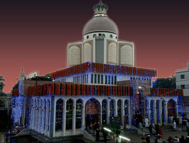 Shrine of Gaus Al Azam Ahmed Ullah Maizbhanderi at Chittagong, Bangladesh